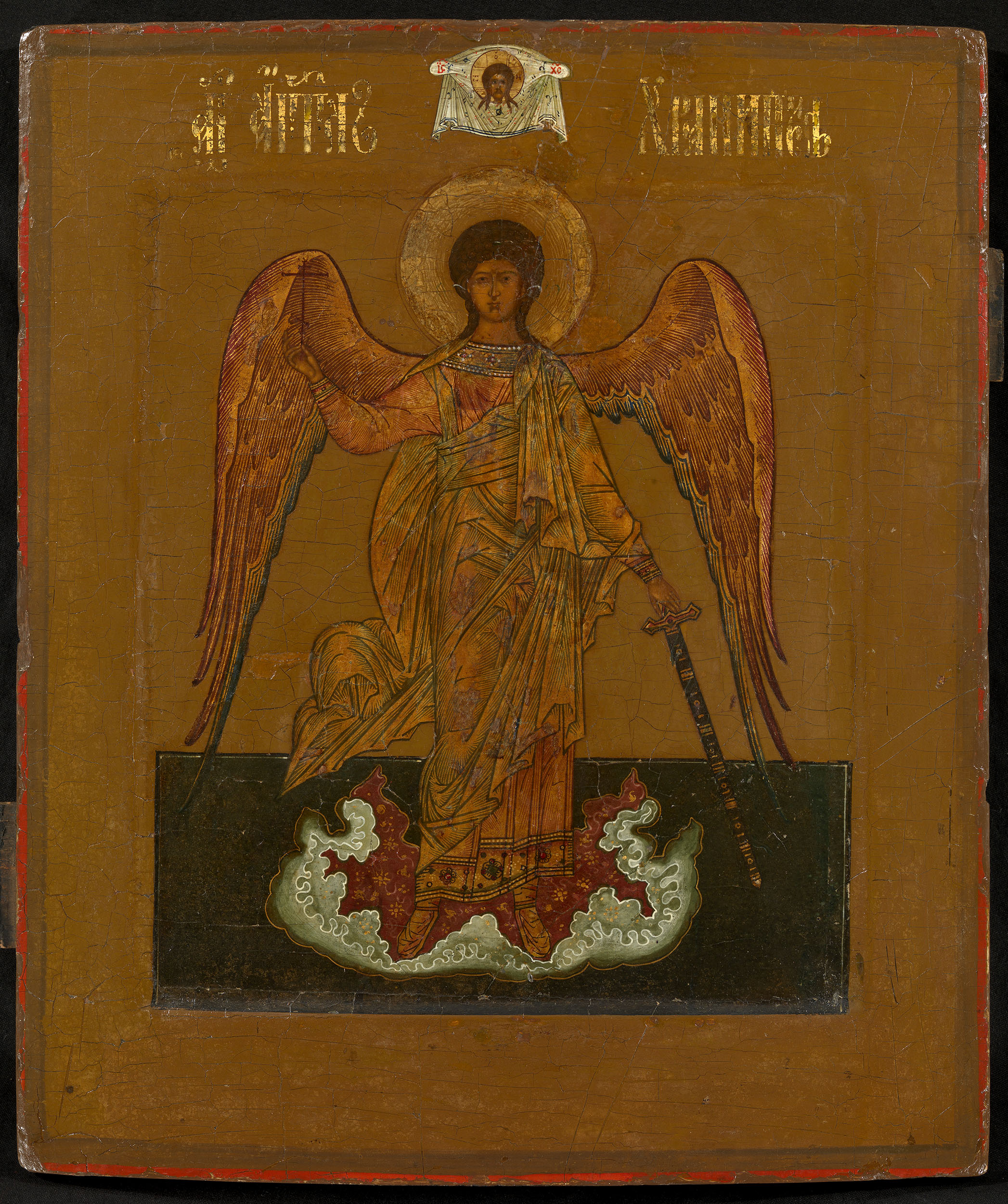 THE GUARDIAN ANGEL OLD BELIEVERS' WORKSHOP, MID 19TH CENTURY